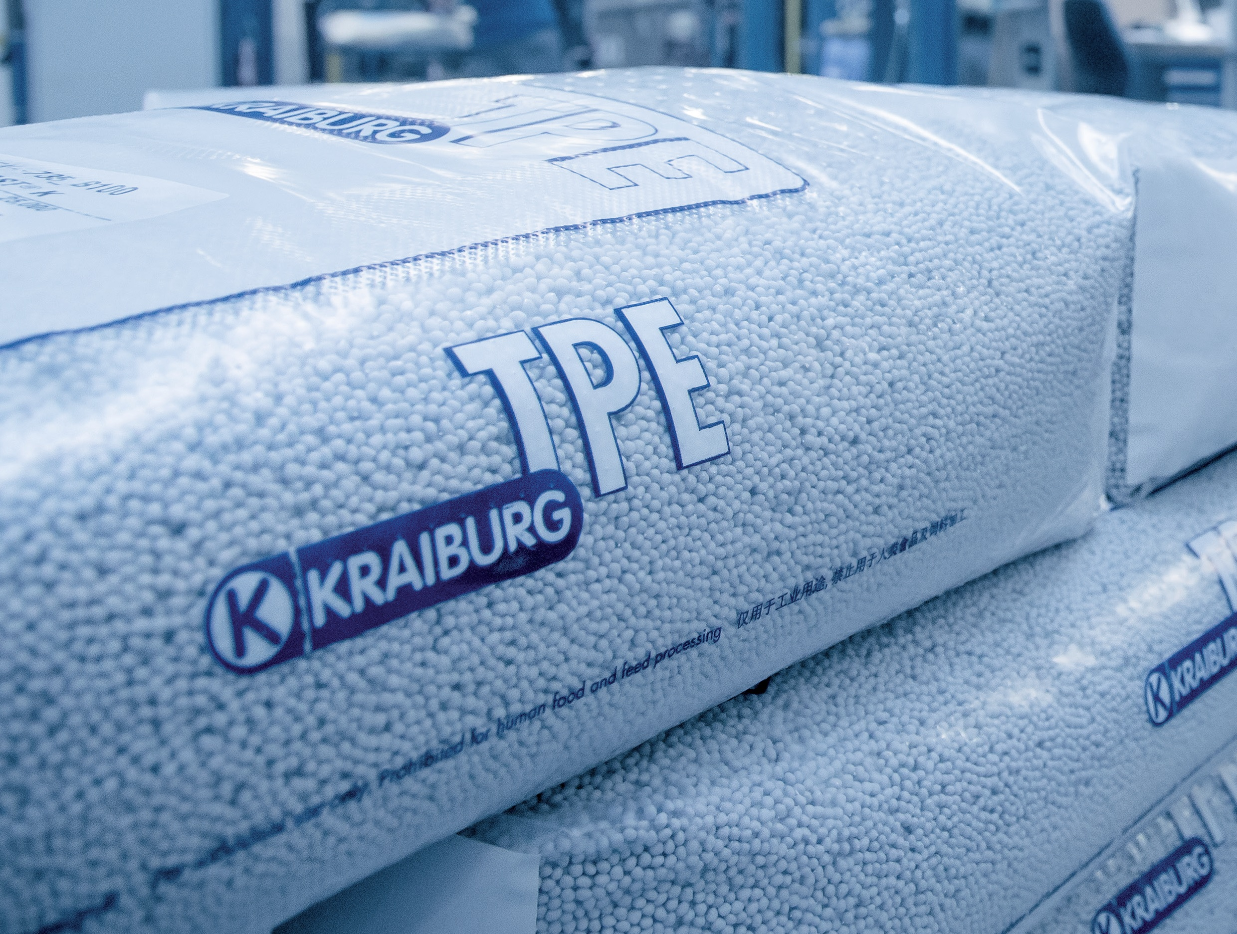 Thermoplastic Elastomer